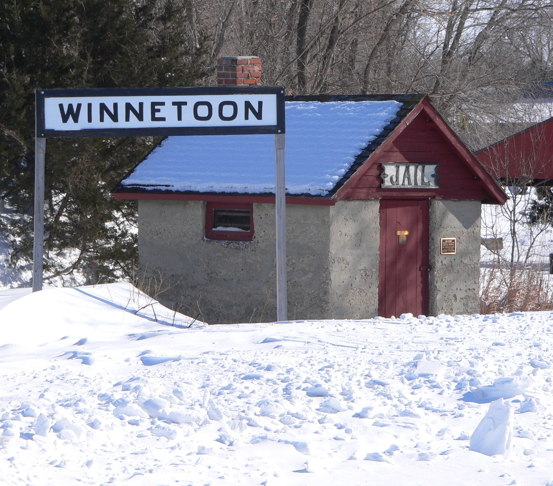 Winnetoon Jail in Winnetoon, Nebraska; seen from the northwest. The building was constructed in 1907, and is listed in the National Register of Historic Places.